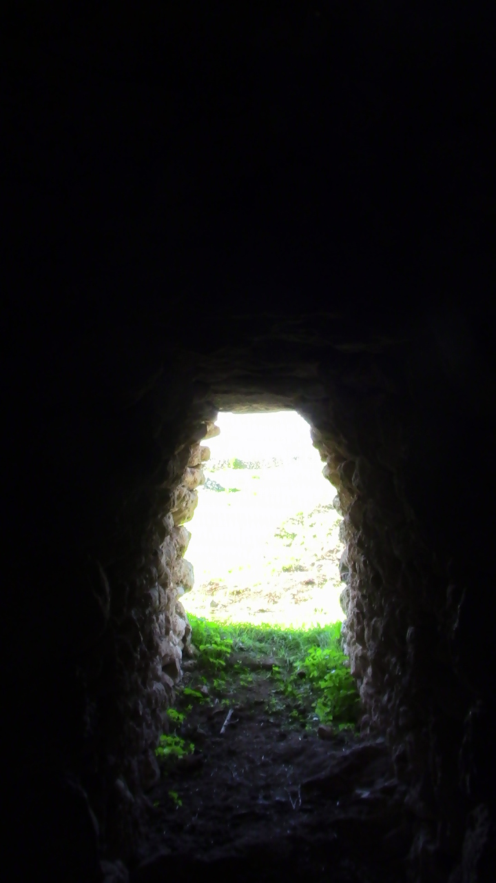 A Tazota exit, Municipality of Sidi Abed, Province of el-Jadida, Morocco